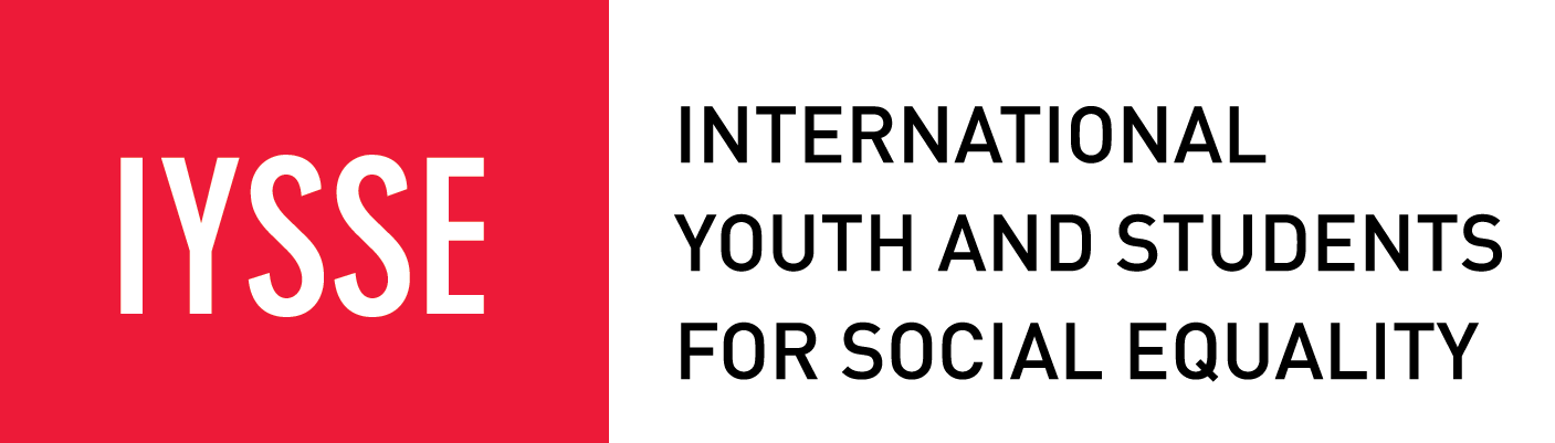 The International Youth and Students for Social